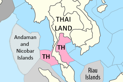 This map shows the exclusive economic zone (EEZ) of Thailand. It is located in Southeast Asia in the Andaman Sea and the Gulf of Thailand.